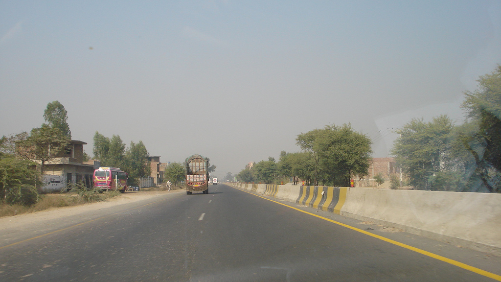 The Grand Trunk Road Northbound near Kharian